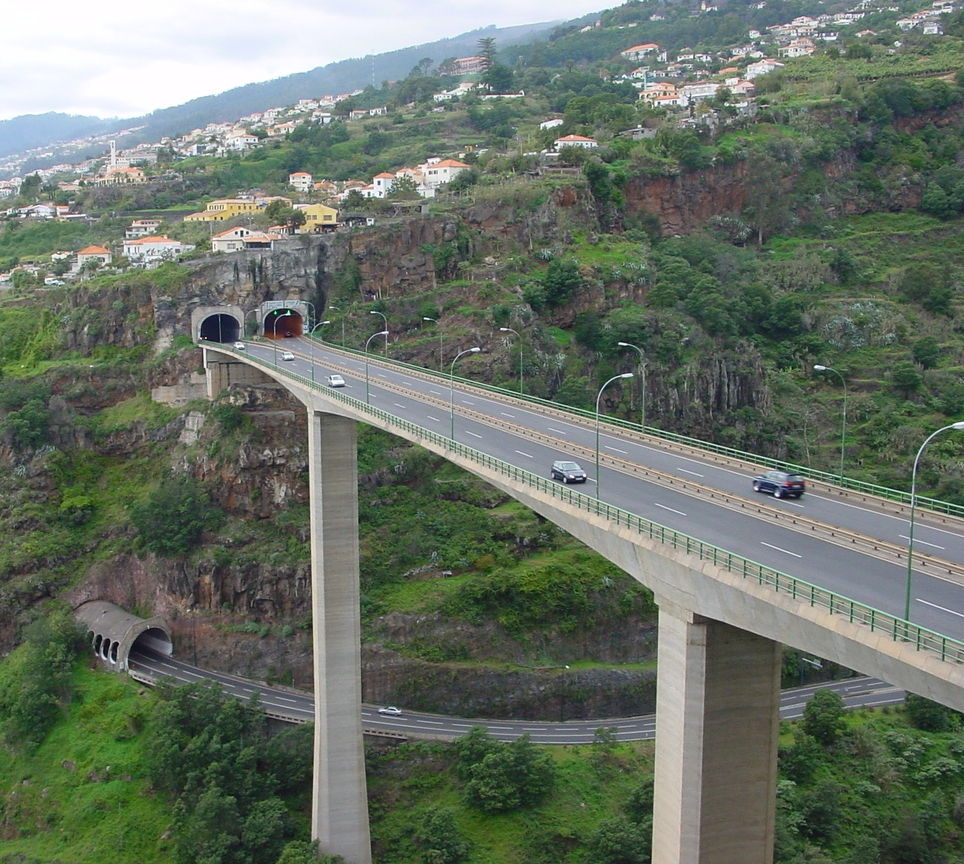 Motorway and tunnel north of Funchal (Madeira)